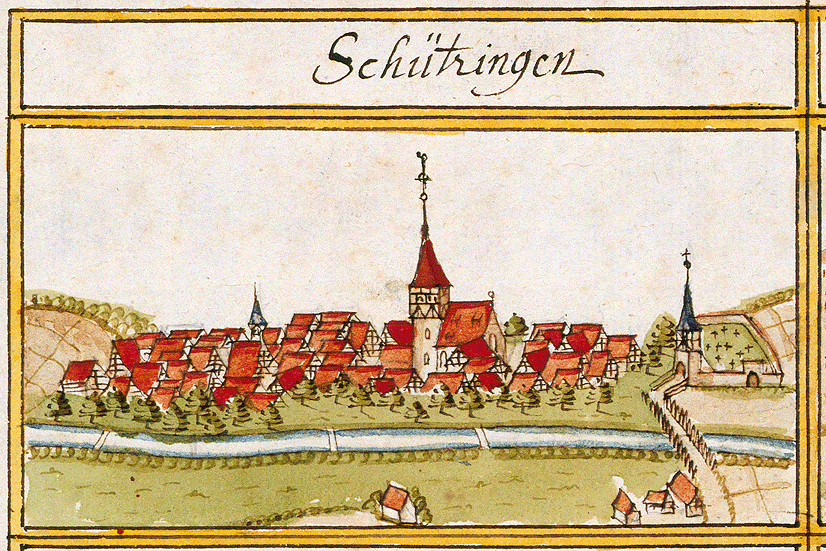 View of Schützingen, Illingen, from the forest register books created by Andreas Kieser